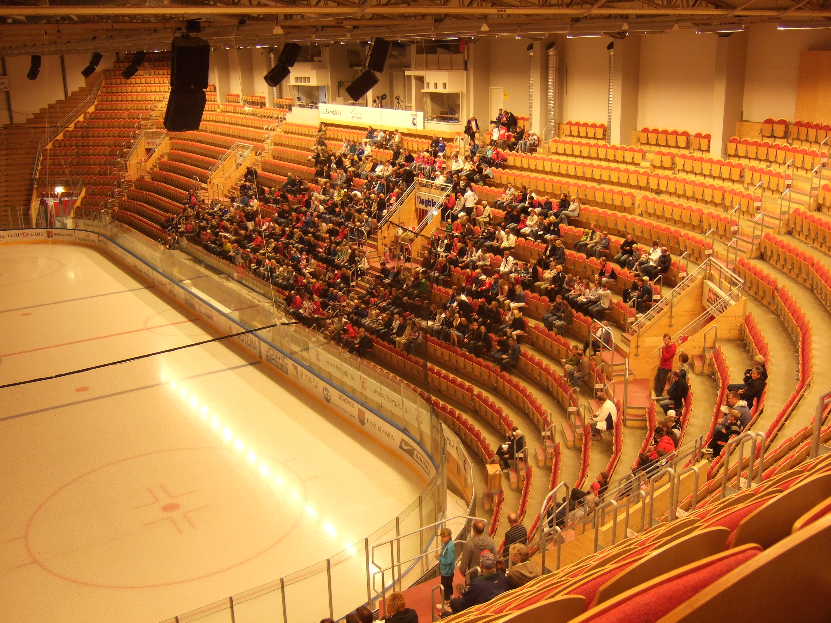 The ice hockey venue "E.ON Arena" at Sportvägen 1 in Sörberge, Timrå Municipality, rink interior with northeast gallery